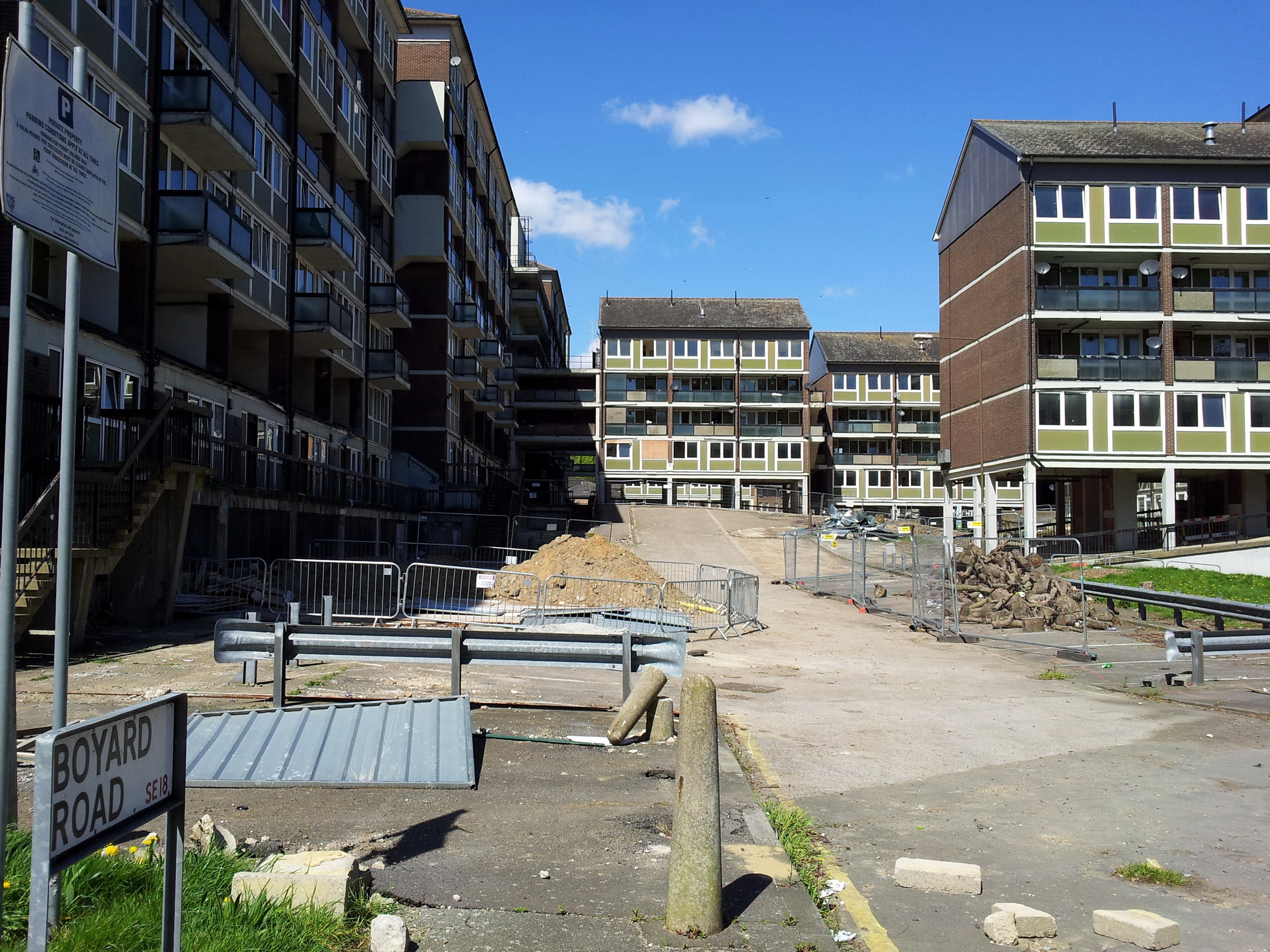 Demolition of the Connaught Housing Estate between Woolwich New Road and Grand Depot Road in Woolwich, South East London.